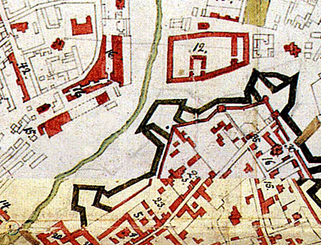 1760s map of Moscow. Neglinnaya river valley that would later become Theater and Lubyanka squares.